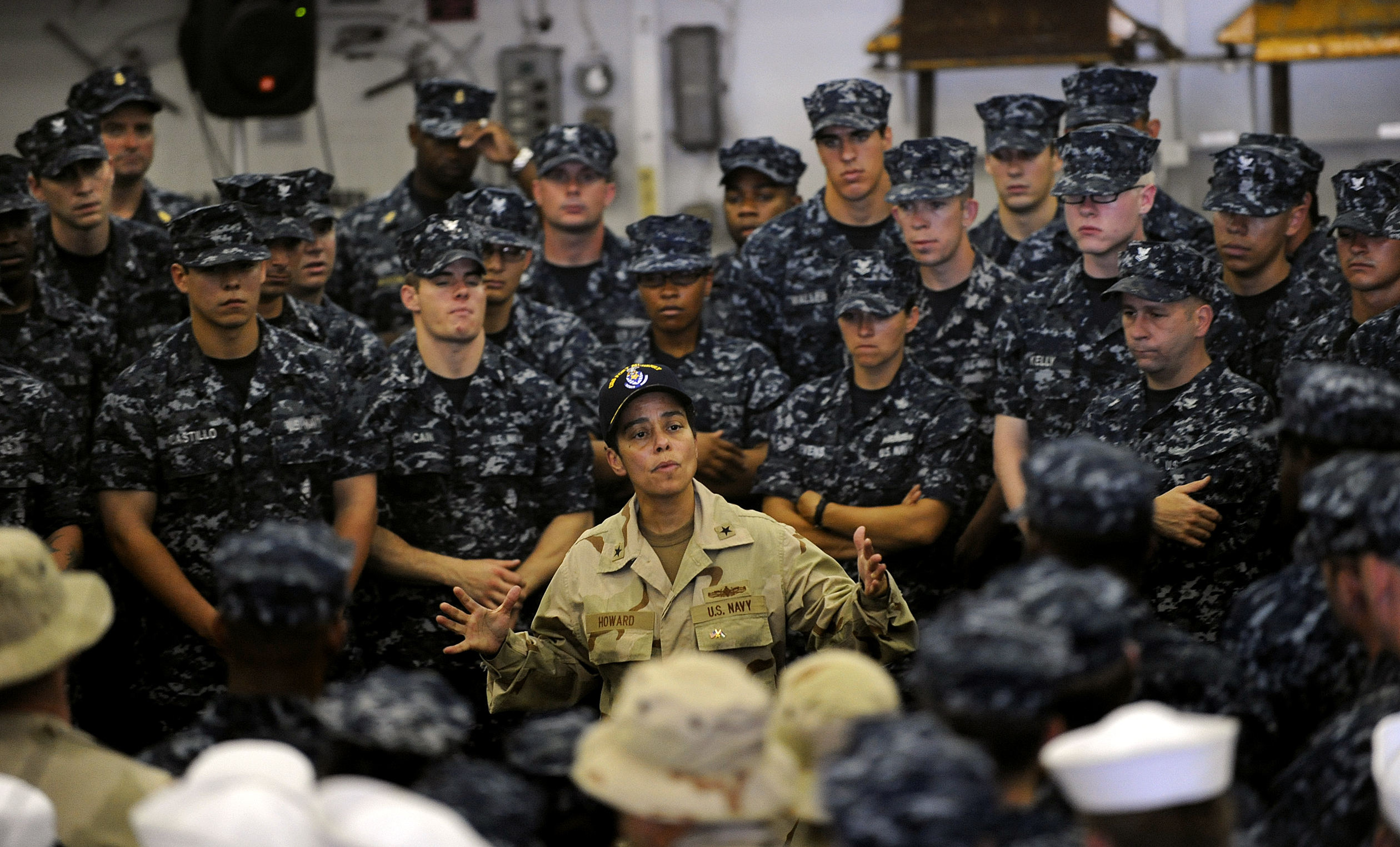 RED SEA (July 7, 2009) Rear Adm. Michelle Howard, commander, Expeditionary Strike Group (ESG) 2, speaks with sailors and marines aboard the amphibious dock landing ship USS Fort McHenry (LSD 43) during a port visit in the U.S. 5th Fleet area of responsibility. Howard discussed with sailors current operations and challenges within the theater.